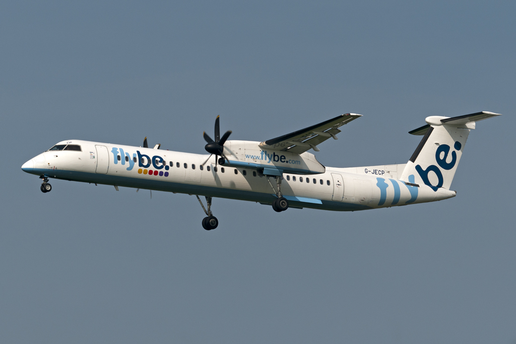 Nice airliner flying regularly on AMS. De Havilland Canada DHC-8-402Q Dash 8 Amsterdam schiphol [AMS / EHAM] 03-09-2011